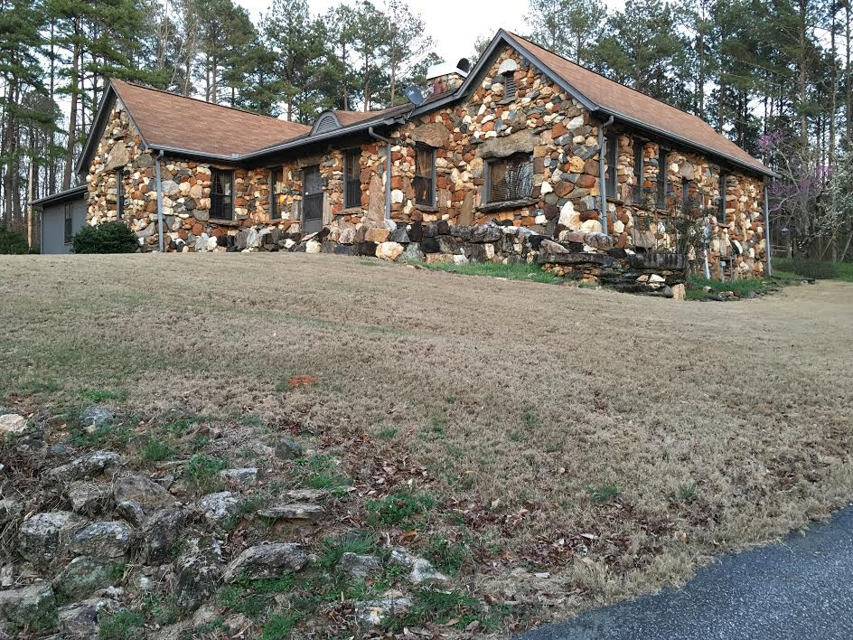 Walter Jones Rock House